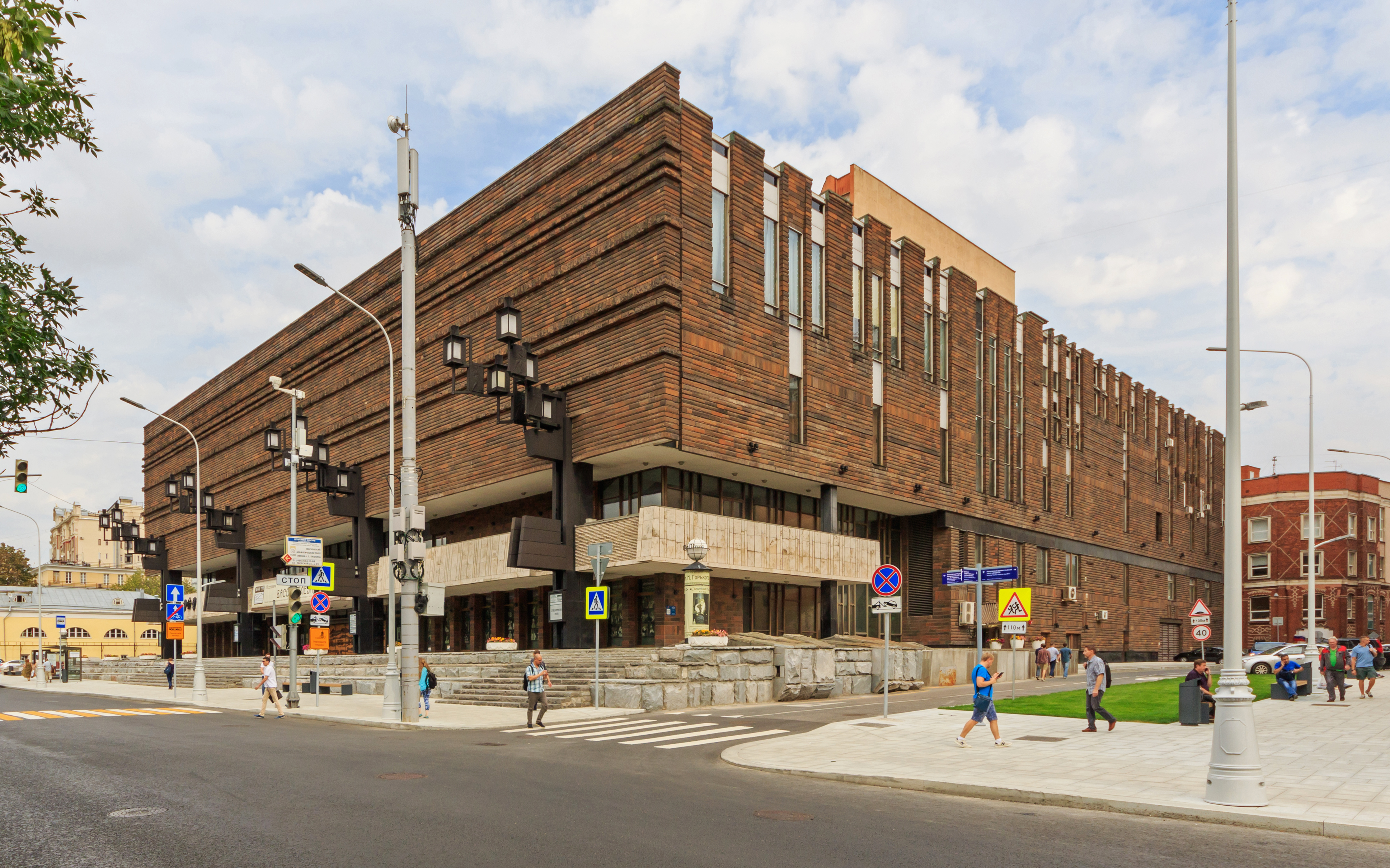 Building of the M.Gorky Art Theatre at Tverskoy Bvd. Moscow, Russia.